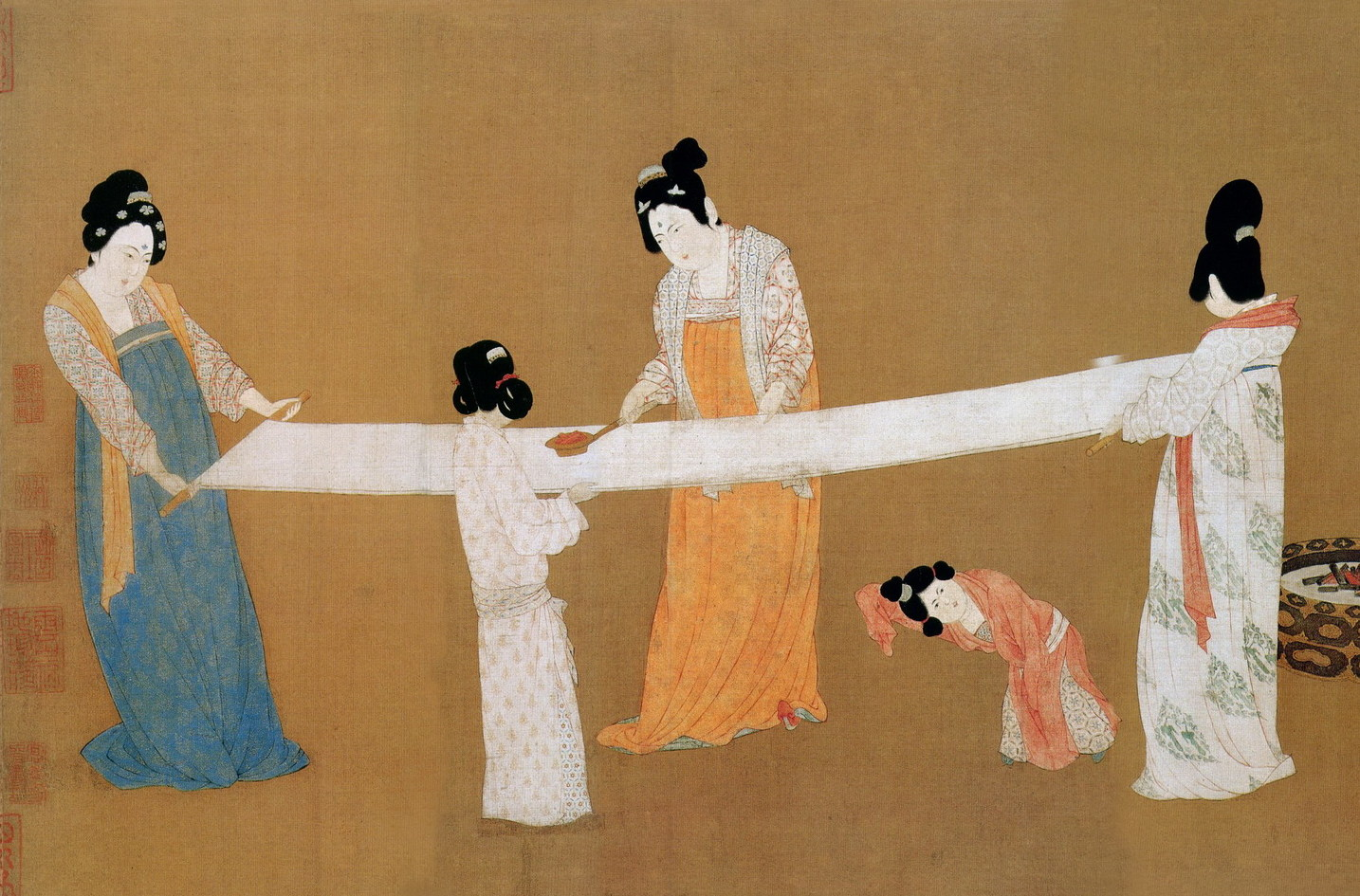 Court ladies preparing newly woven silk